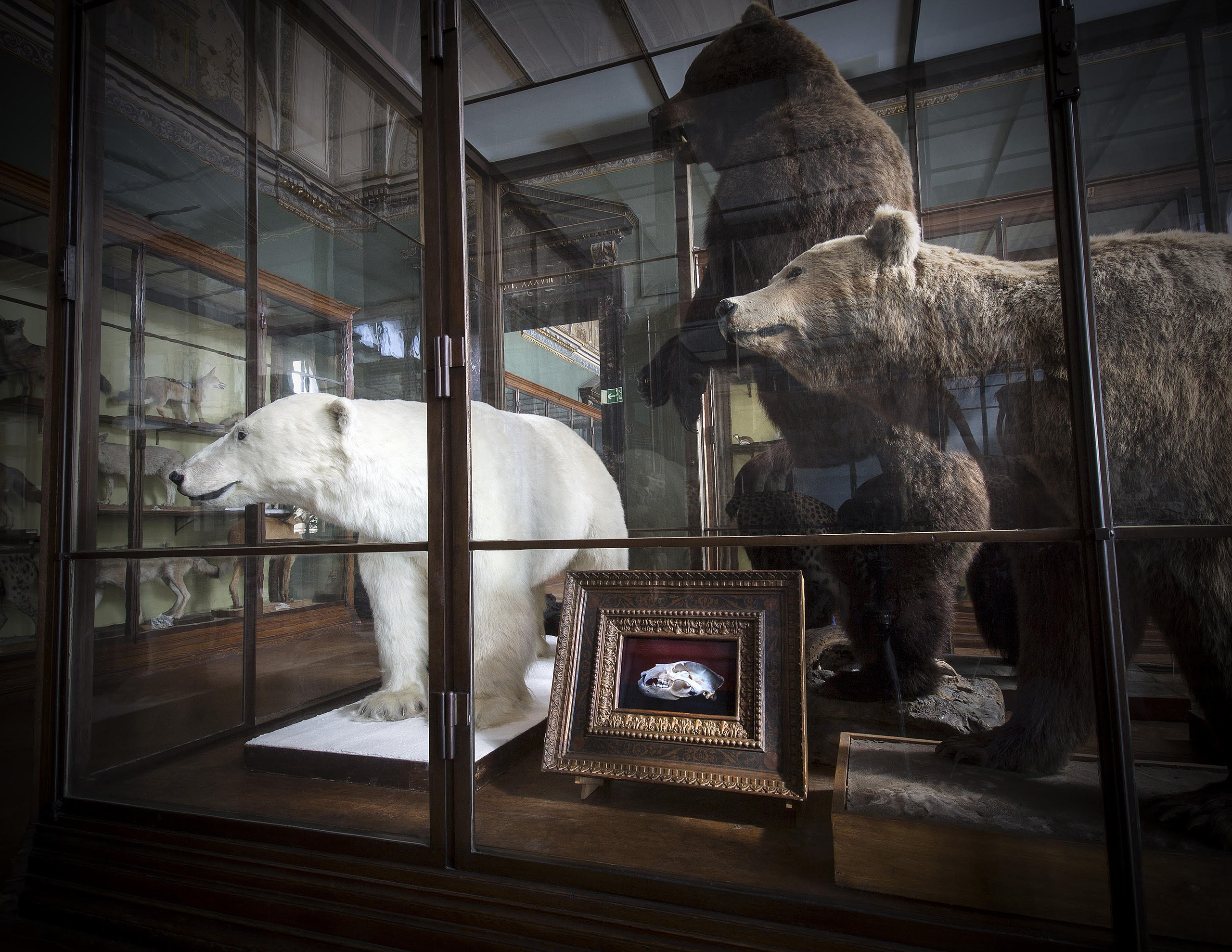 Installation view from the Oliver Mark exhibition Natura Morta in the Natural History Museum Vienna, 2017